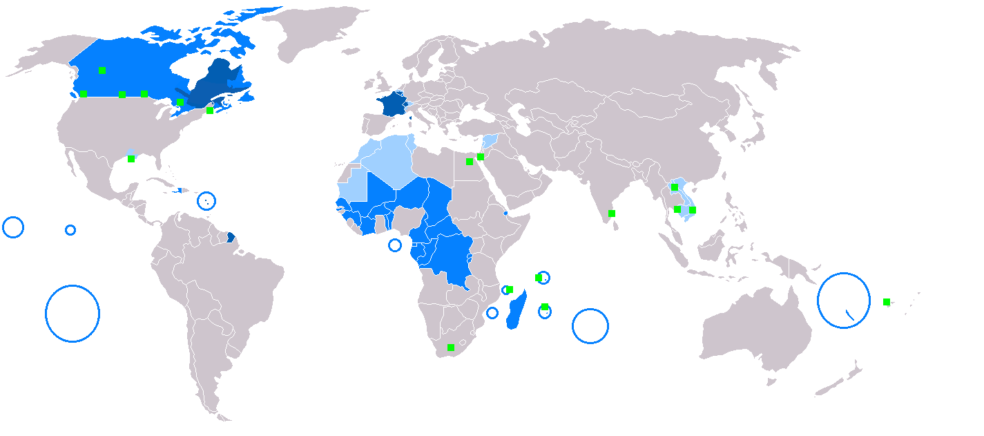 Map of Francophone world.